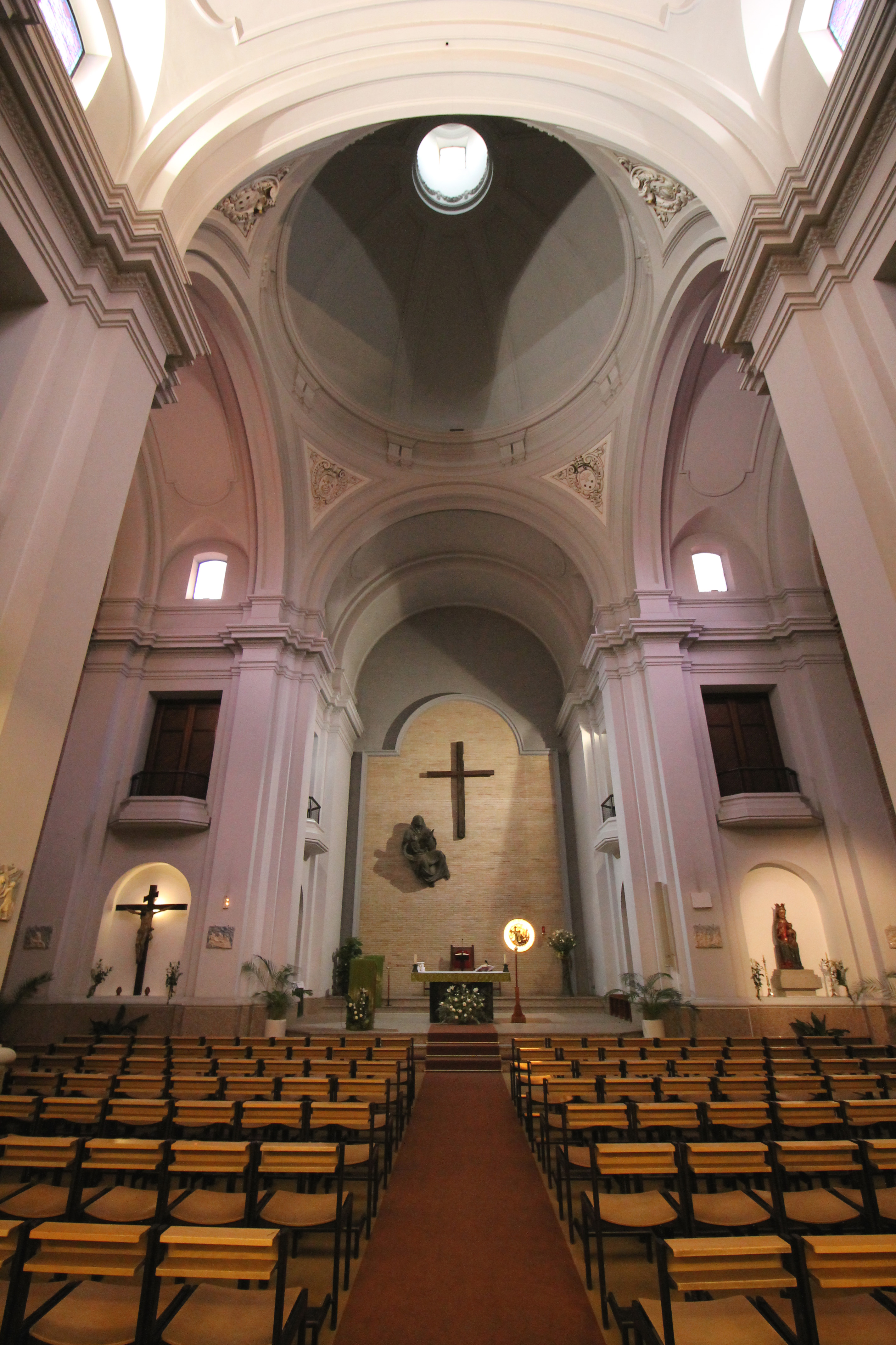 Interior of Iglesia de las Madres Reparadoras (a church) in Madrid (Spain).